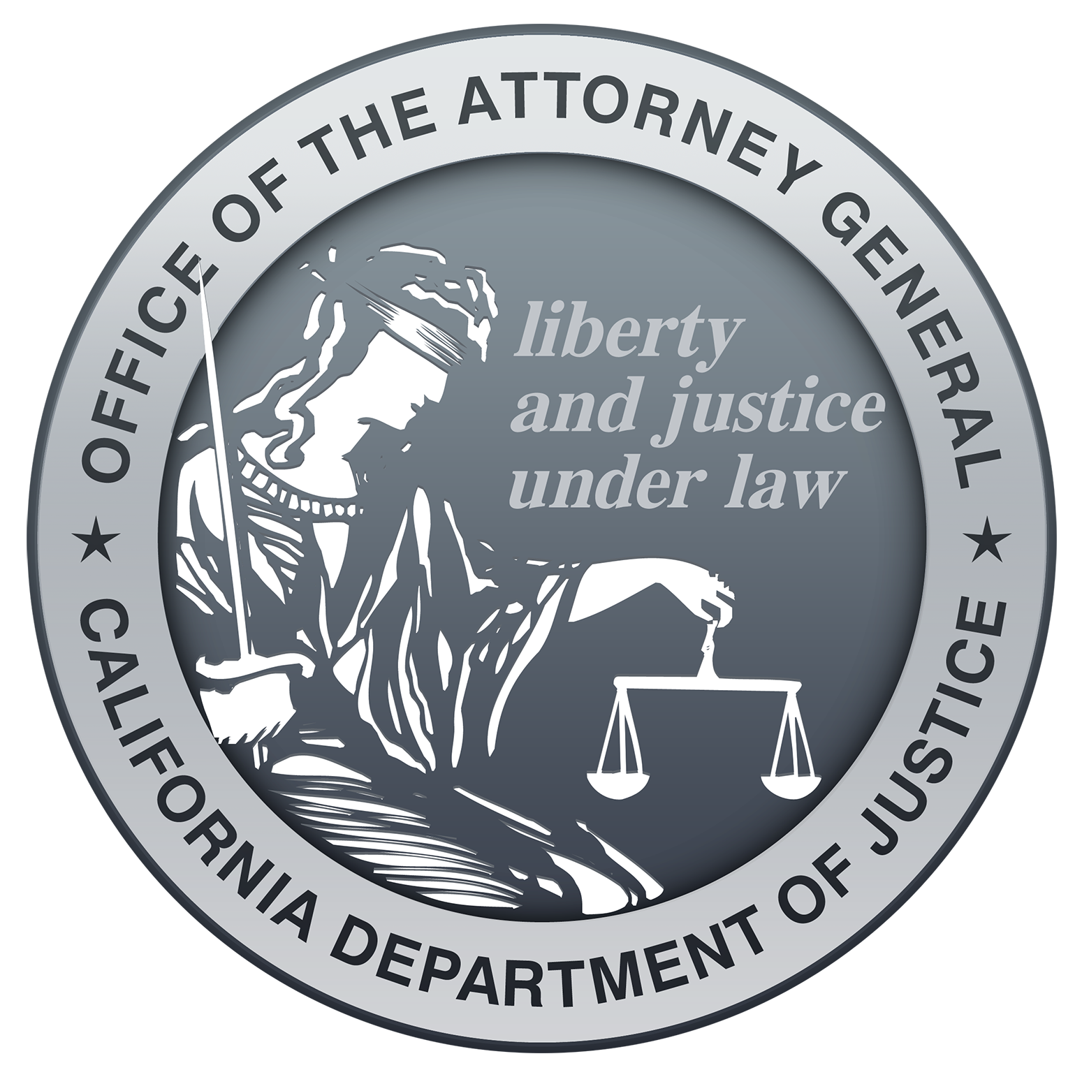 CA Department of Justice Logo